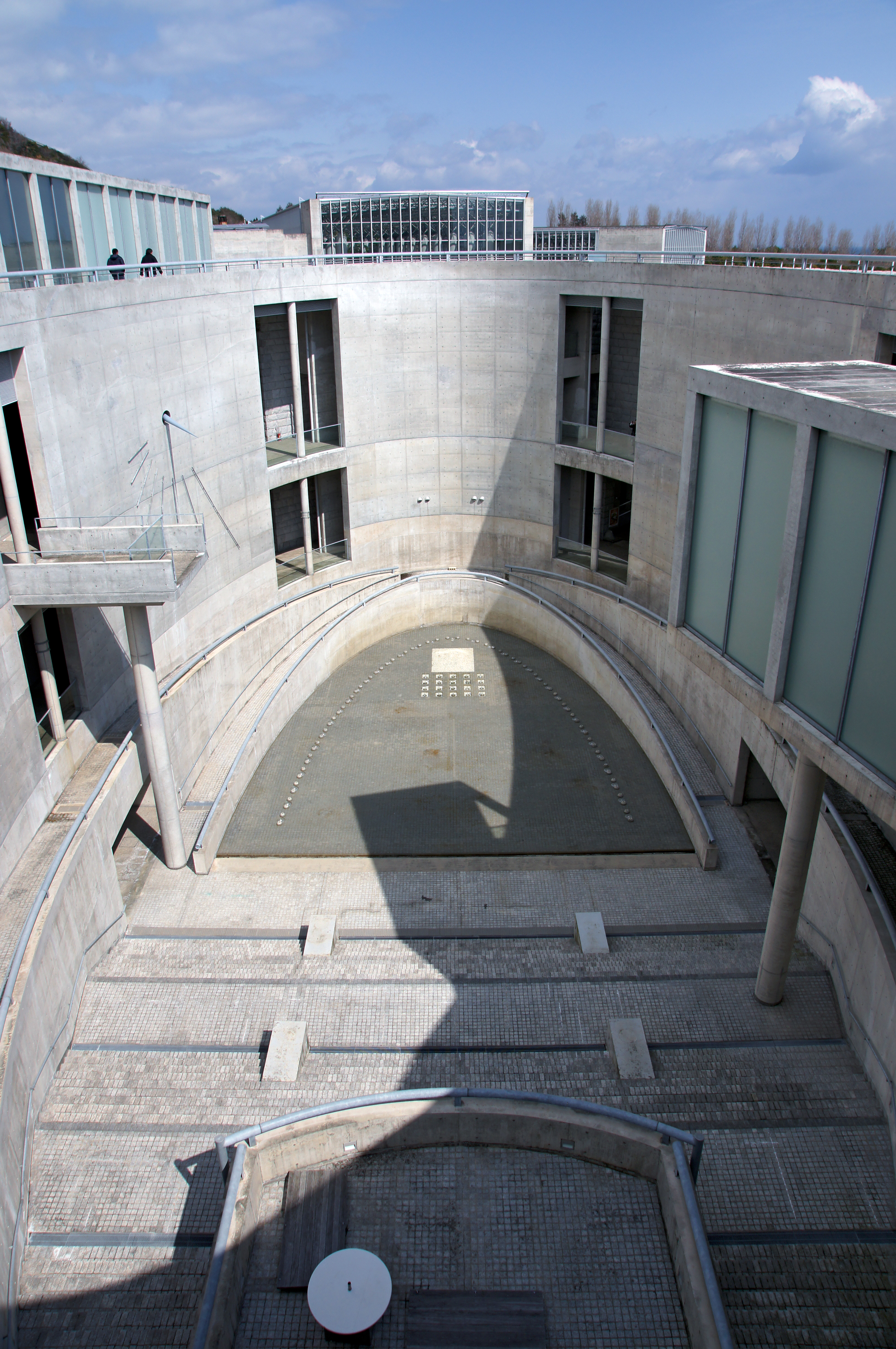 The Oval Forum of Awaji Yumebutai in Awaji, Hyogo prefecture, Japan